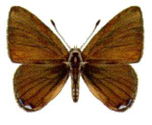 identifying features of Australian butterfly species wing pattern